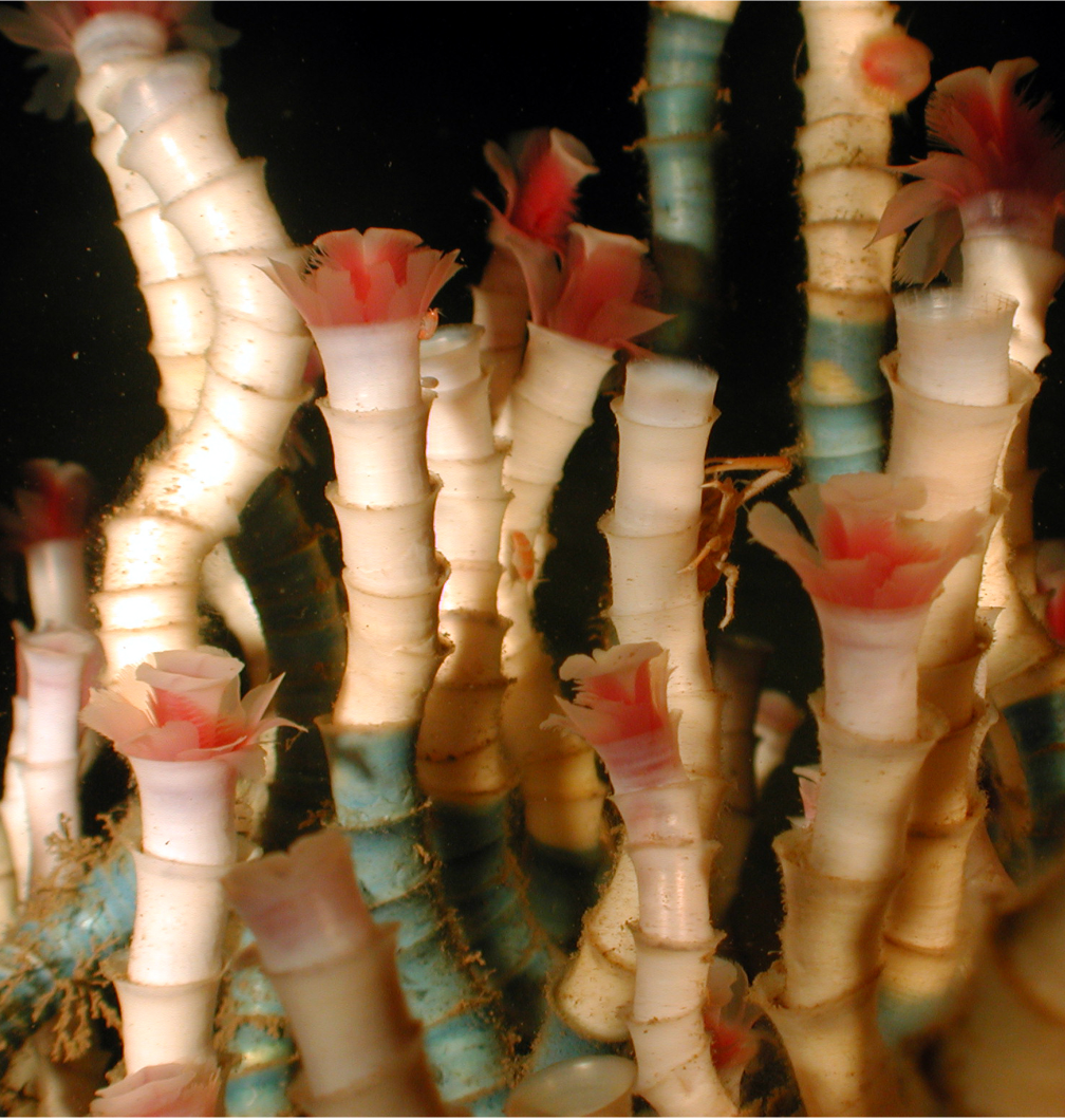 Close-up photograph of the symbiotic vestimentiferan tubeworm Lamellibrachia luymesi from a cold seep at 550 m depth in the Gulf of Mexico. The tubes of the worms are stained with a blue chitin stain to determine their growth rates. Approximately 14 mo of growth is shown by the staining here.